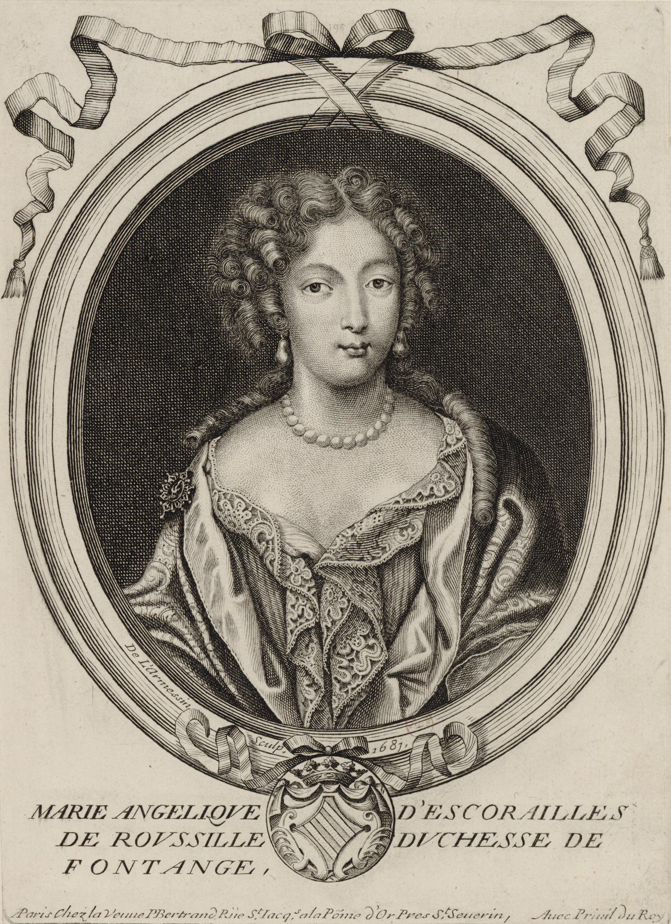 Engraved portrait of Marie Angélique de Scorailles, Duchess of Fontanges (1661-1681)